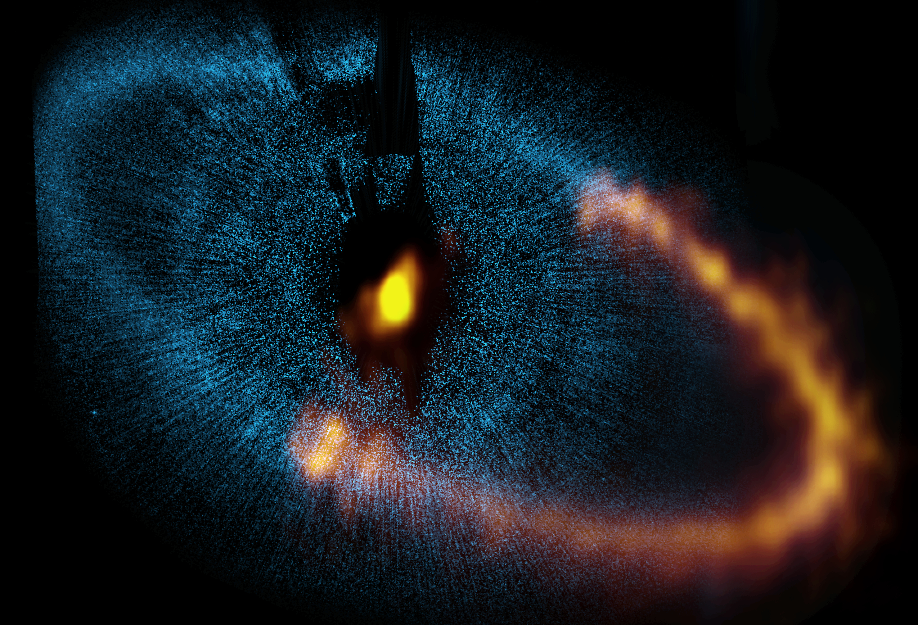 This view shows a new picture of the dust ring around the bright star Fomalhaut from the Atacama Large Millimeter/submillimeter Array (ALMA). The underlying blue picture shows an earlier picture obtained by the NASA/ESA Hubble Space Telescope. The new ALMA image has given astronomers a major breakthrough in understanding a nearby planetary system and provided valuable clues about how such systems form and evolve. Note that ALMA has so far only observed a part of the ring.